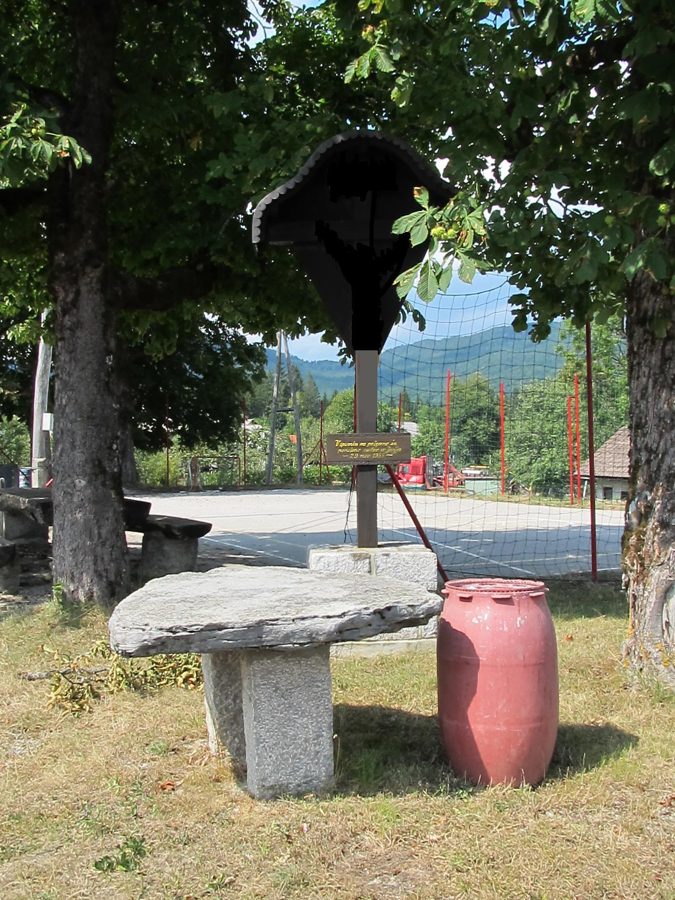 Site of the demolished St. George's Church in Novi Lazi, Municipality of Kočevje, Slovenia